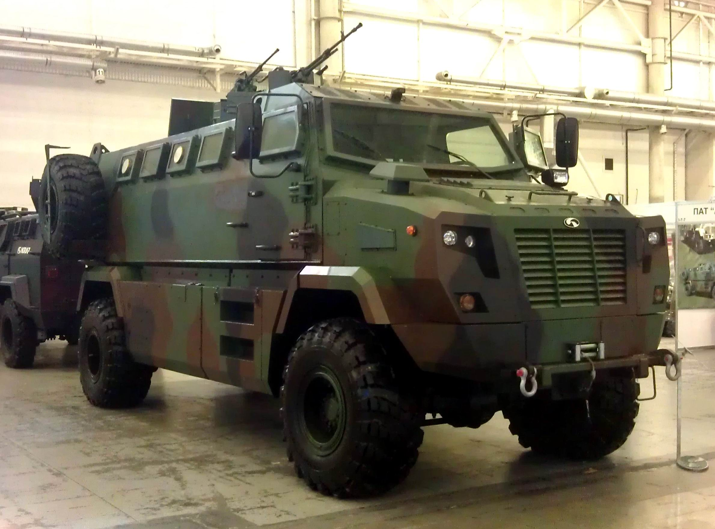 MRAP KrAZ "Shrek" on "AvtoKrAZ" stand. "Arms and Security" exhibition, Kyiv, september 2015.